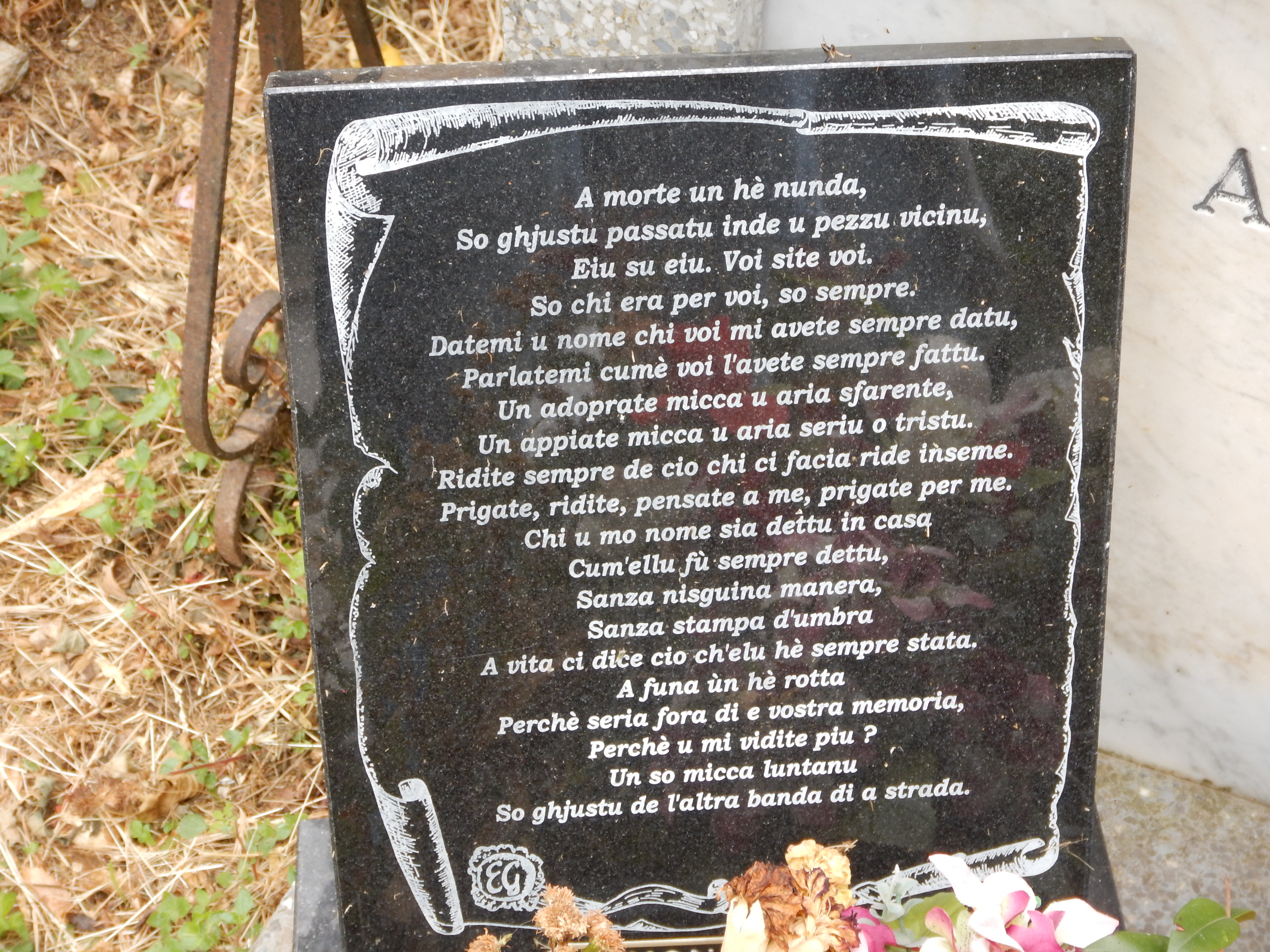 Funerary Inscription In Corsican language at the cemetery of Erbaggio (Commune of Nocario), Castagniccia, Corsica